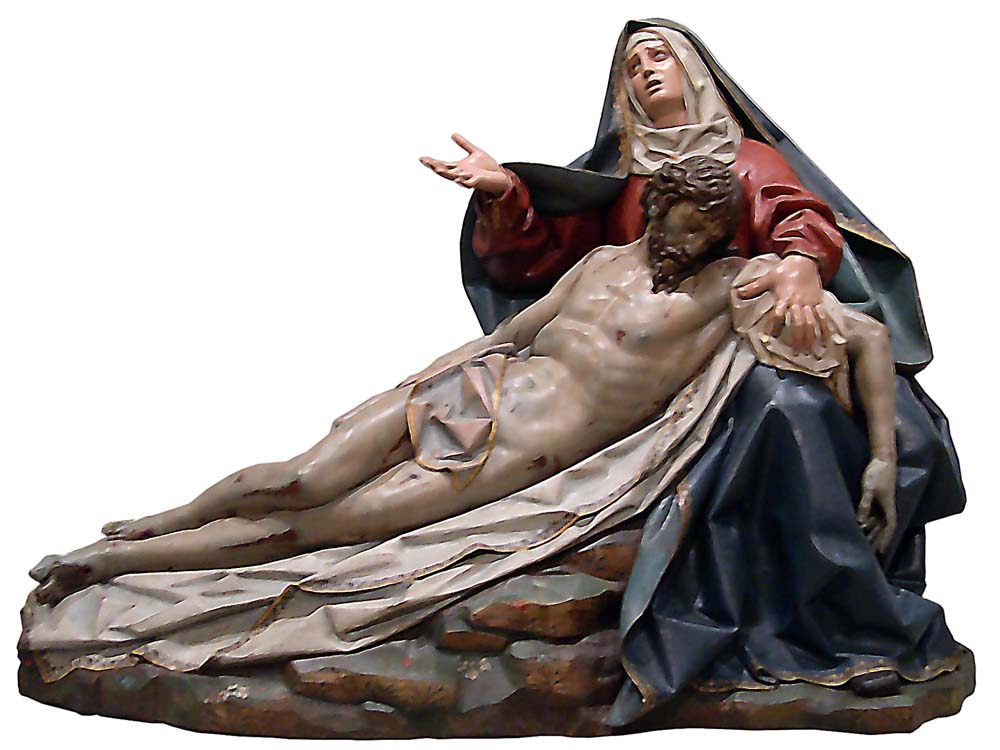 Pietá, sculpture in polychromed wood for a Holy Week Passion Float, currently displayed in the Museum Nacional de Escultura, in Valladolid (Spain)